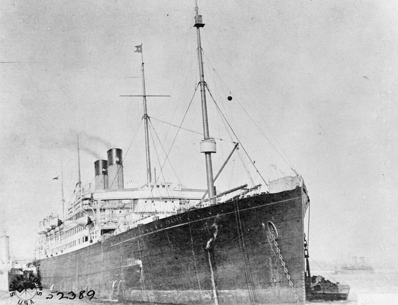 The Royal Navy 1919-1939 SS CELTIC ocean liner, Brest.